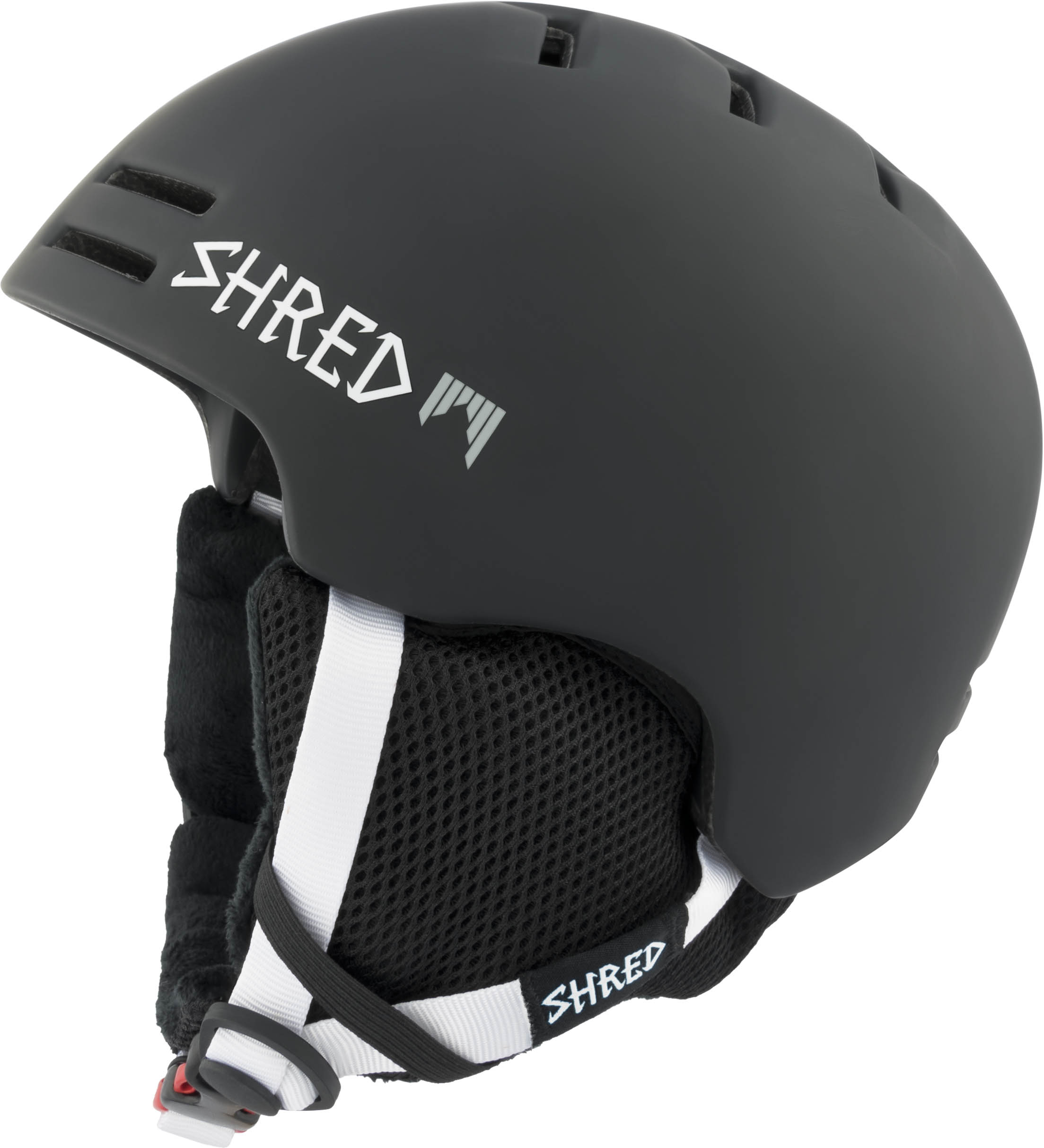 Shred ski and snowboard helmet, which features Shred's Rotational Energy System.